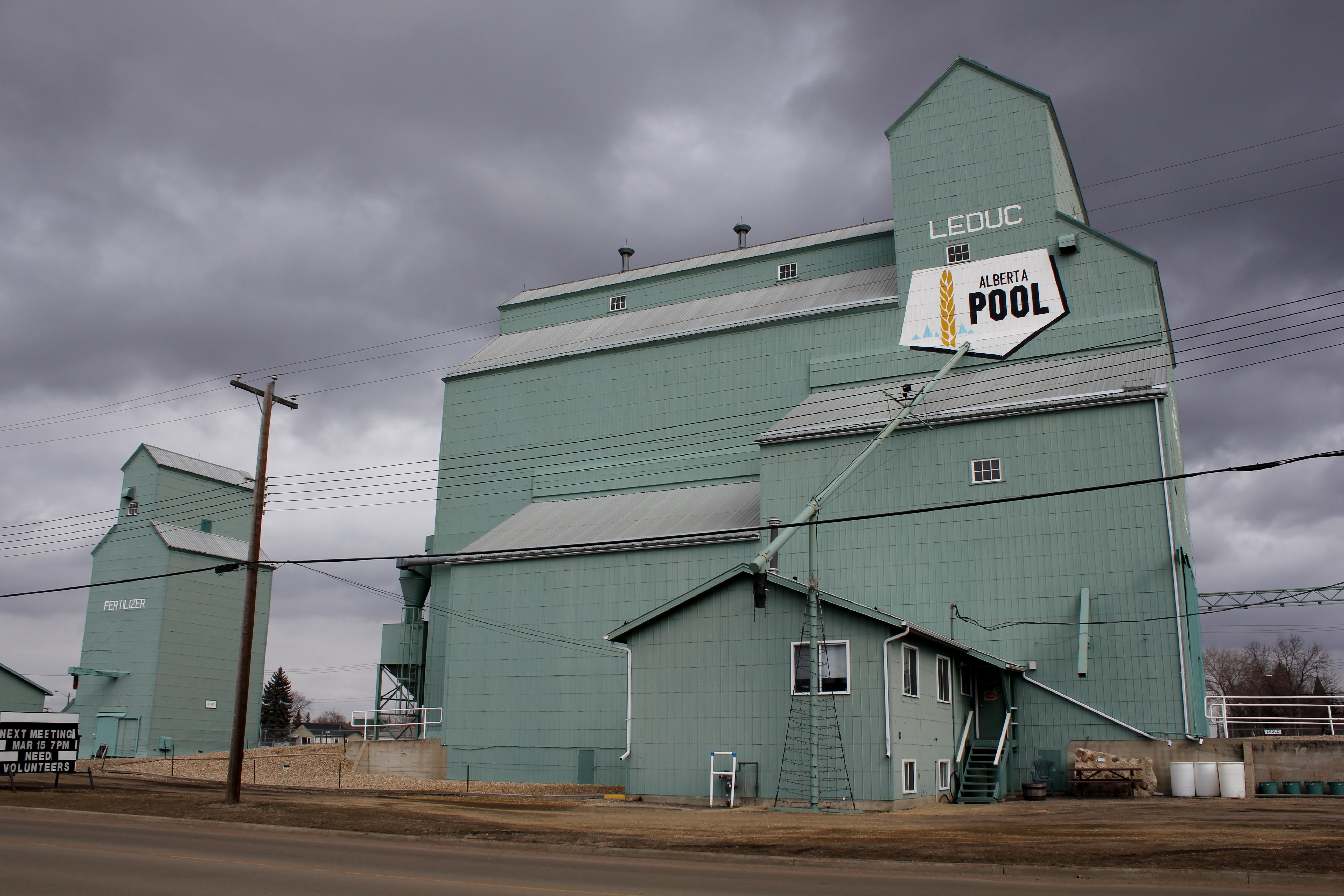 Alberta Wheat Pool Grain Elevator Site Complex